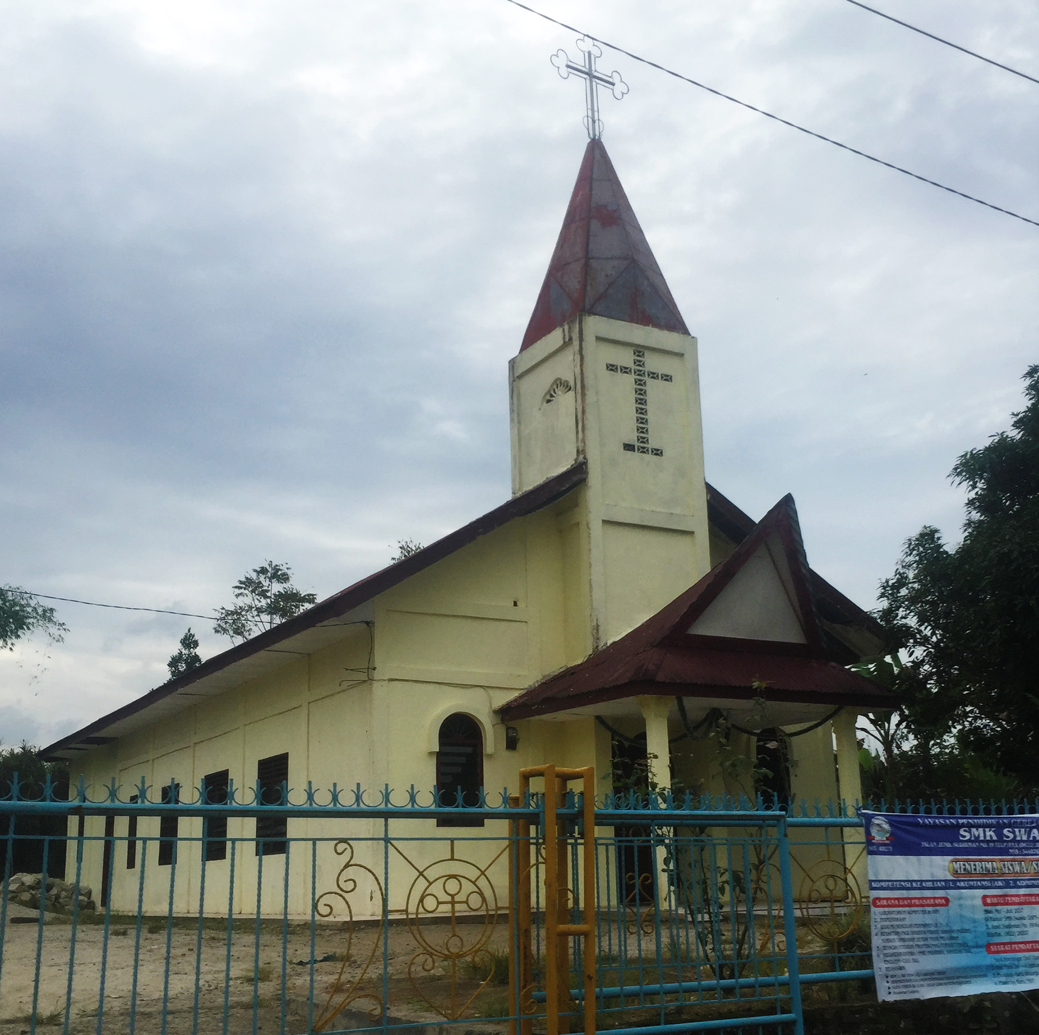 GKPS Bangun Tani, Church in Partuahan, Dolog Masagal, Simalungun